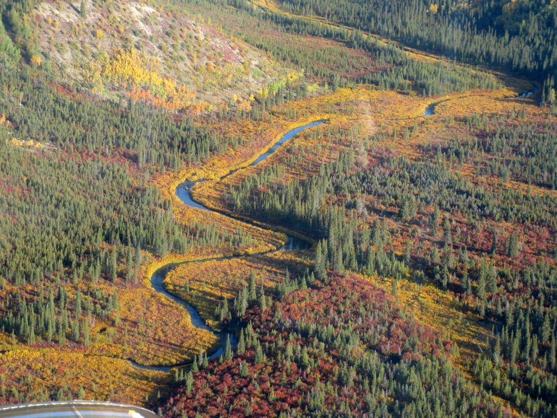 Kobuk Valley National Park, late summer colors